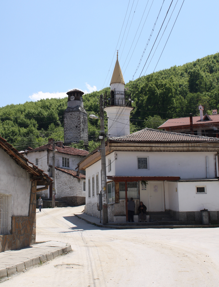 a 17th century clock tower and a new mosque, Peshtera, Bulgaria